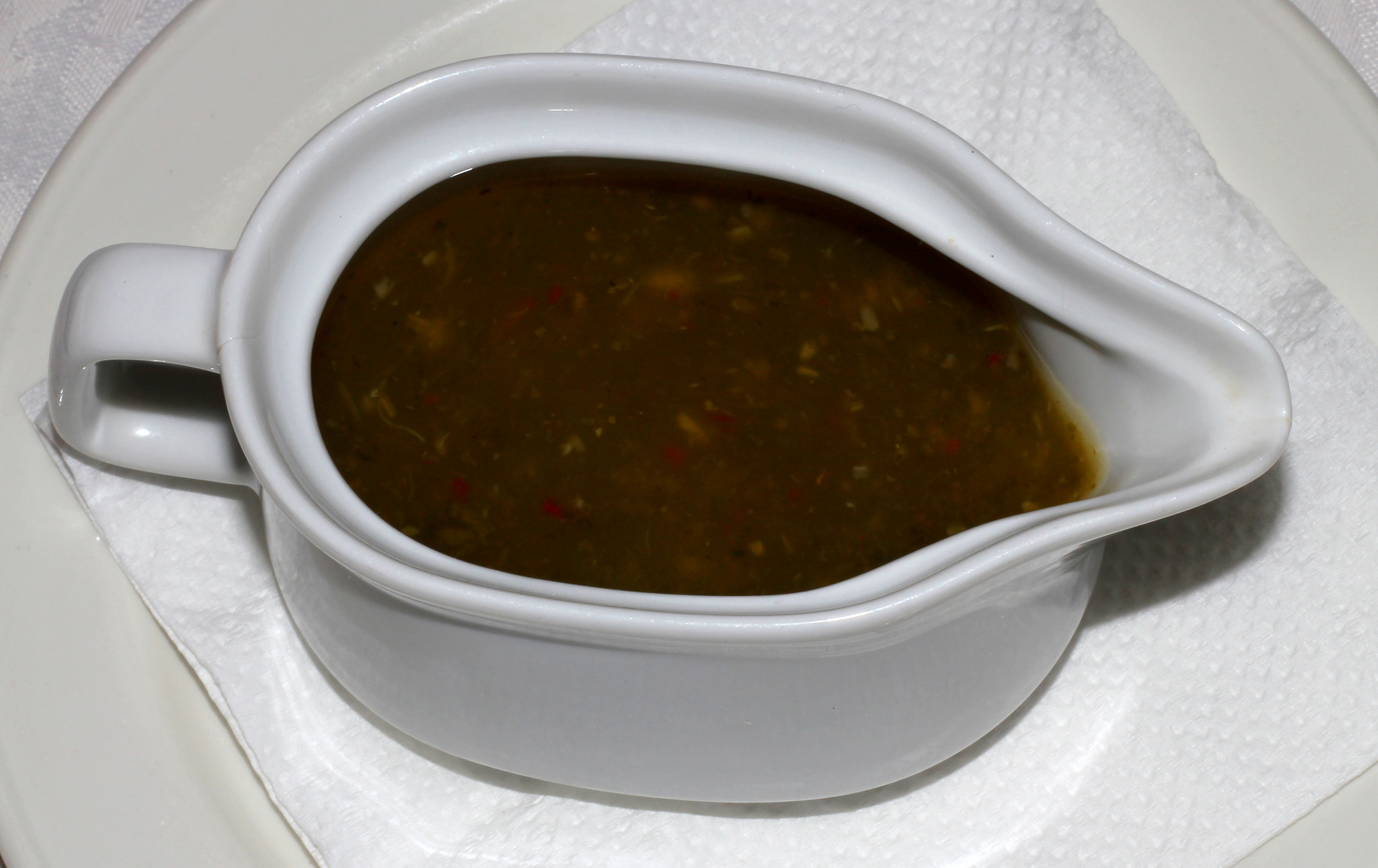 Tqemali is a spicy Georgian plum sauce. Photograph taken in a Georgian restaurant in Moscow.